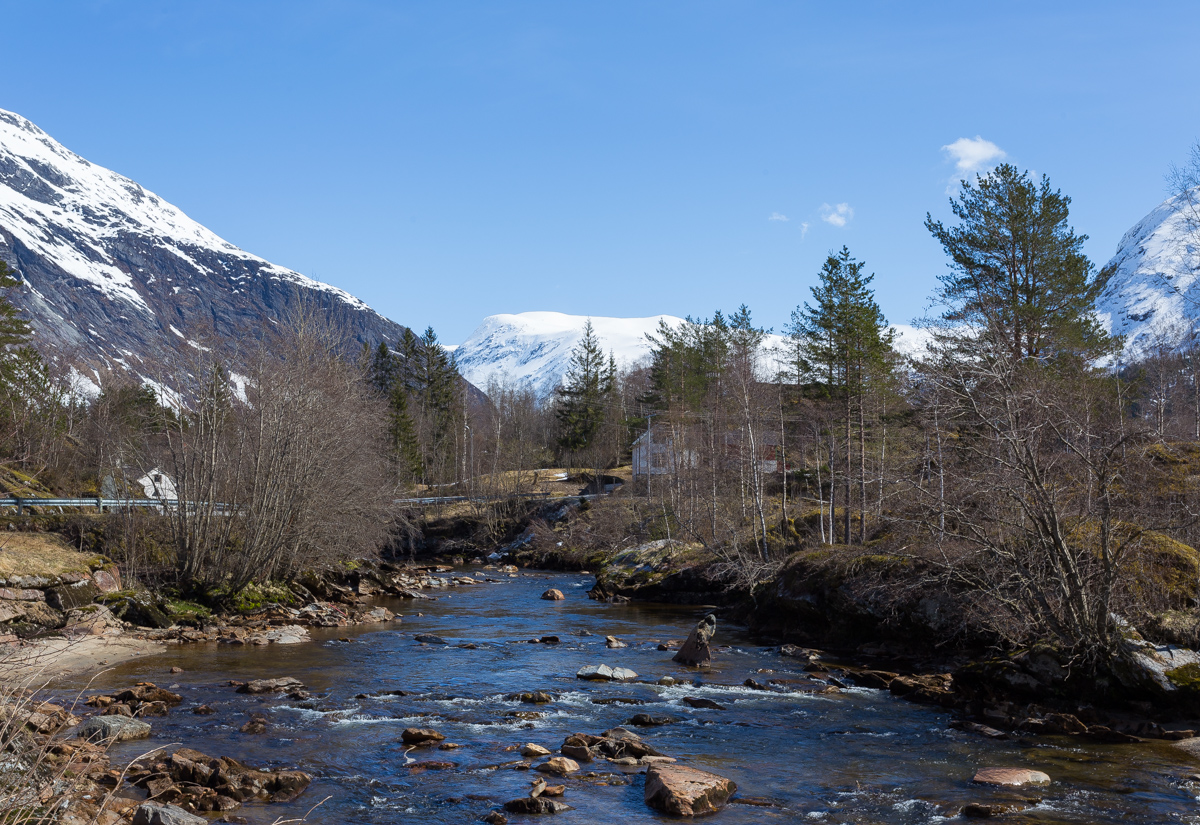 River Stardalselva in Jølster.